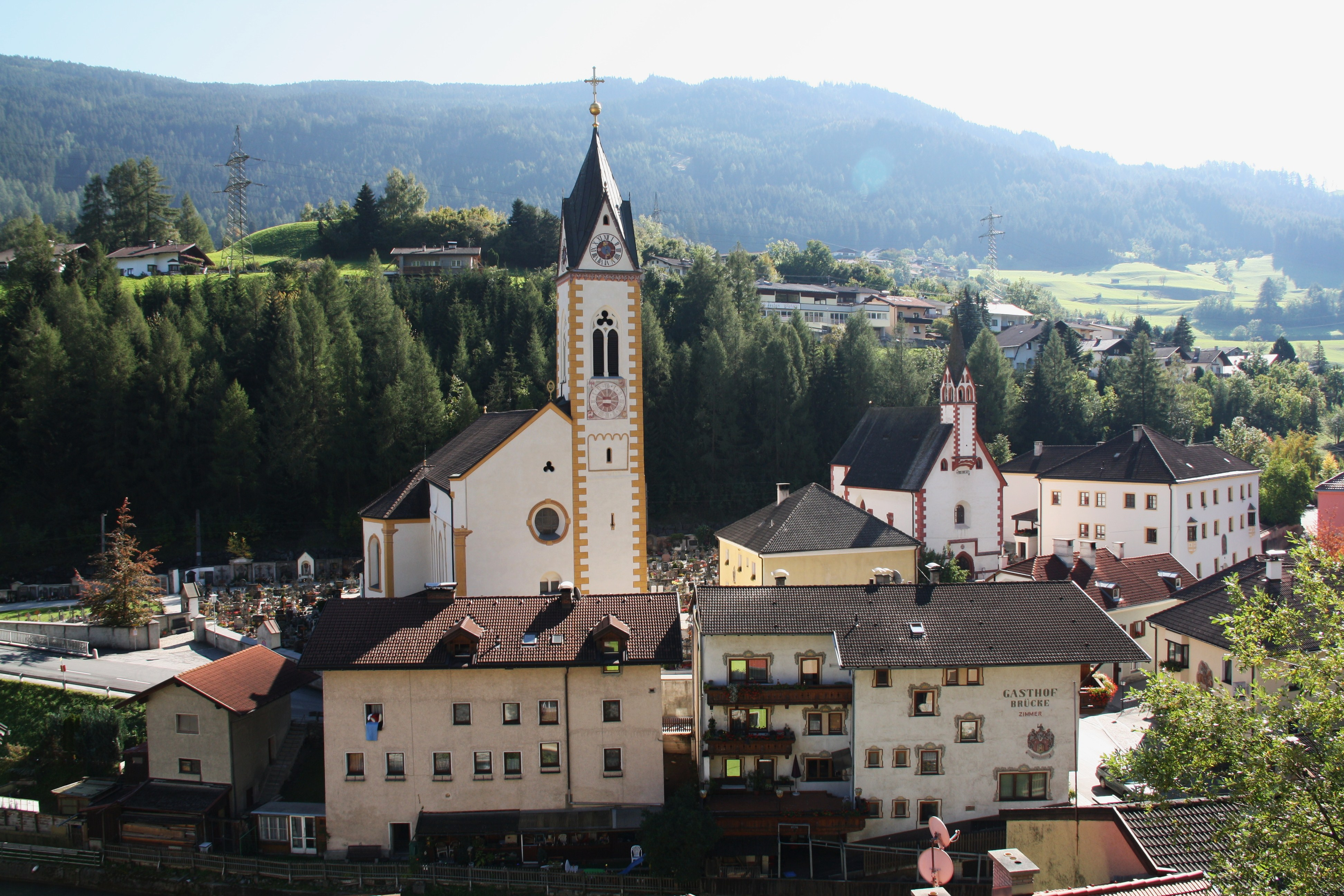 Austria, Tyrol (state), Pfons. Deanery Matrei am Brenner parish church "Maria Himmelfahrt" and the Baptistery are situated in the municipality of Pfons, on the east side of Sill river.